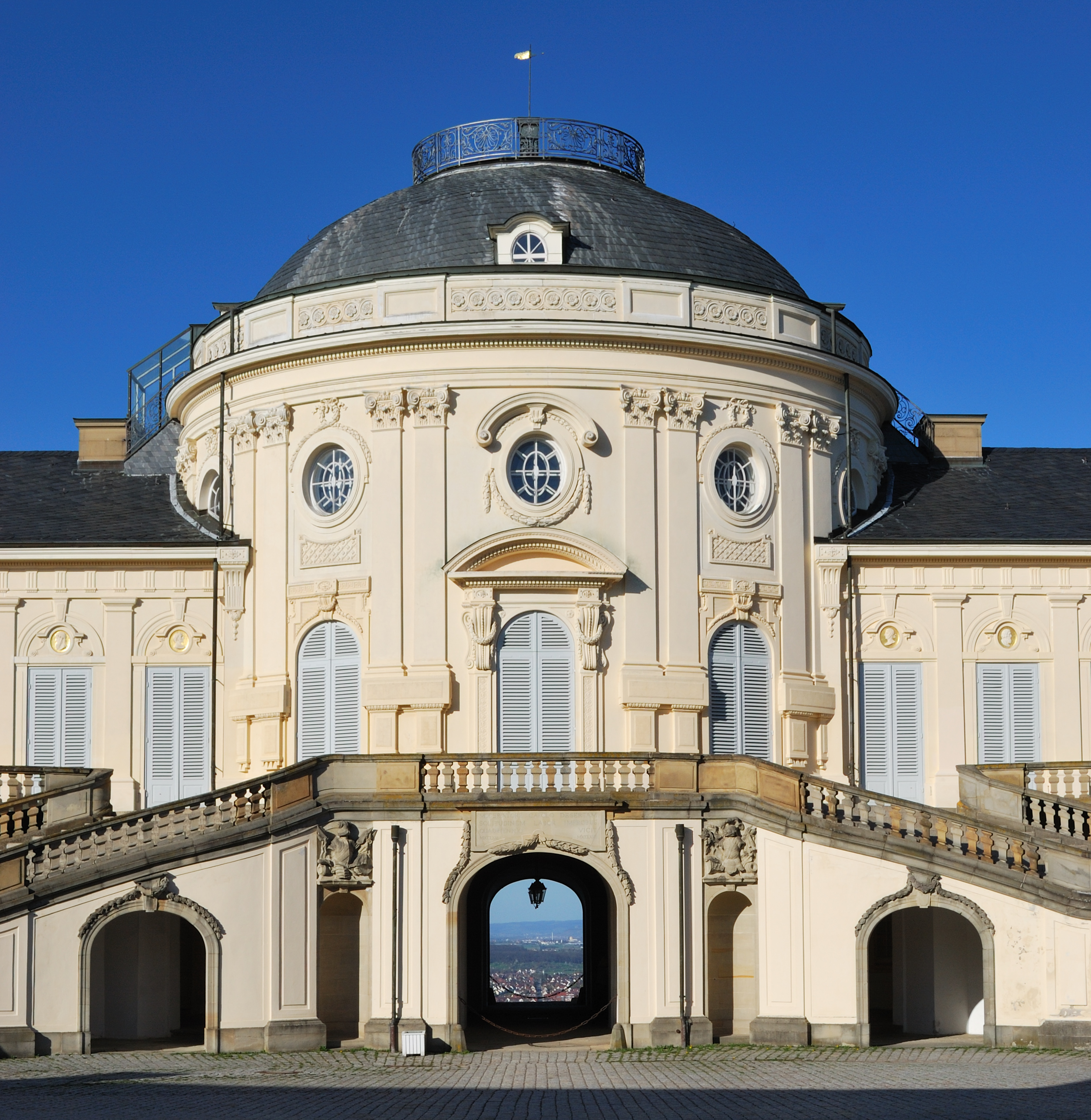 Castle Solitude near Stuttgart, view from the South.